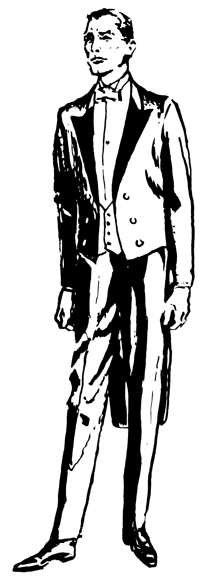 Full dress (male formal attire with white tie and tailcoat)